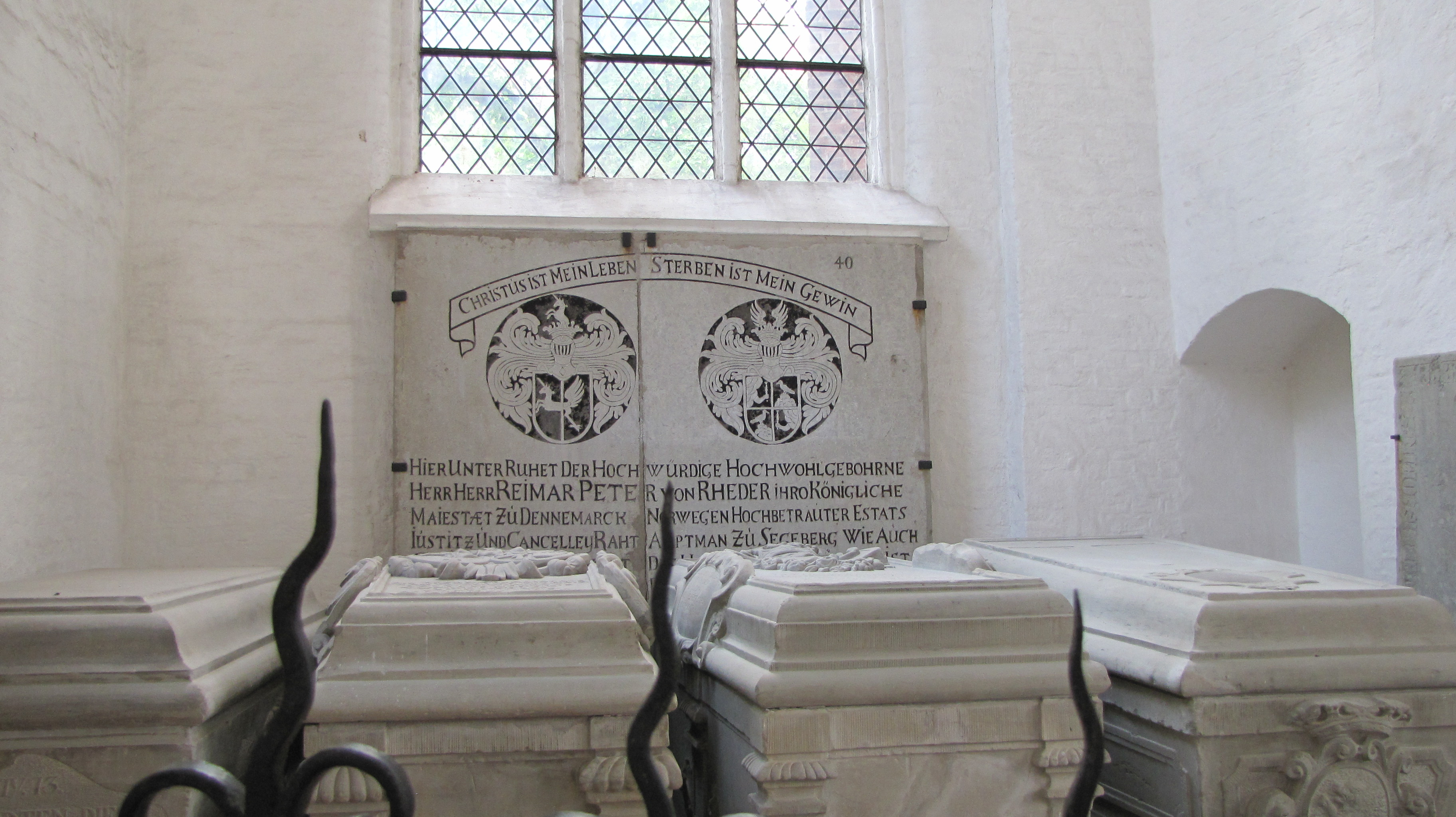 The Dechantenkapelle (Deans' chapel) in Lübeck cathedral with ledger stone of Reimar Peter von Rheder (+ 1711) and sarcophagi of the Wedderkop family